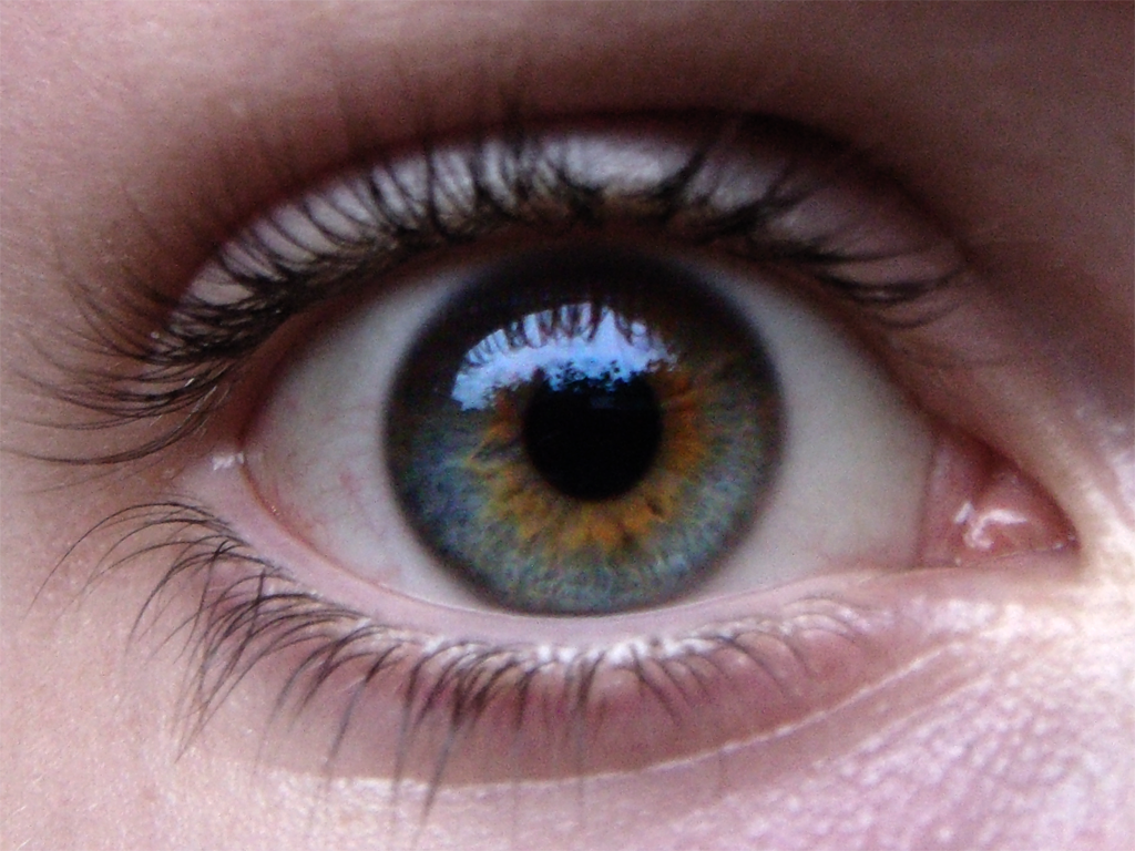 Used to give an better quality example of Central Heterochromia